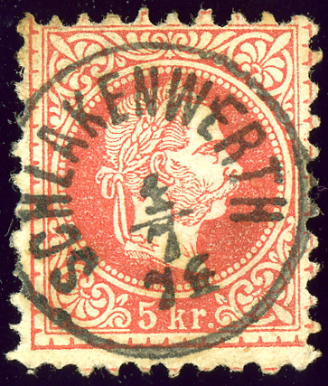 Austrian KK stamp, 5 kreuzer issue 1867, cancelled SCHLAKENWERTH (Ostrov, Bohemia)